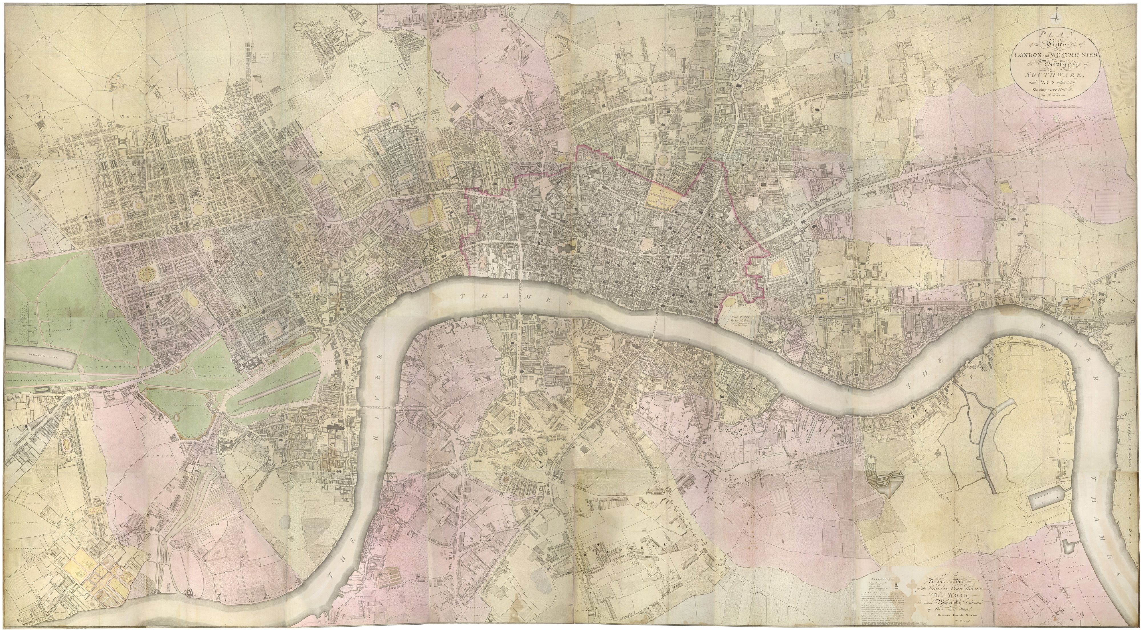 Hoorwood's 1790s map of London.